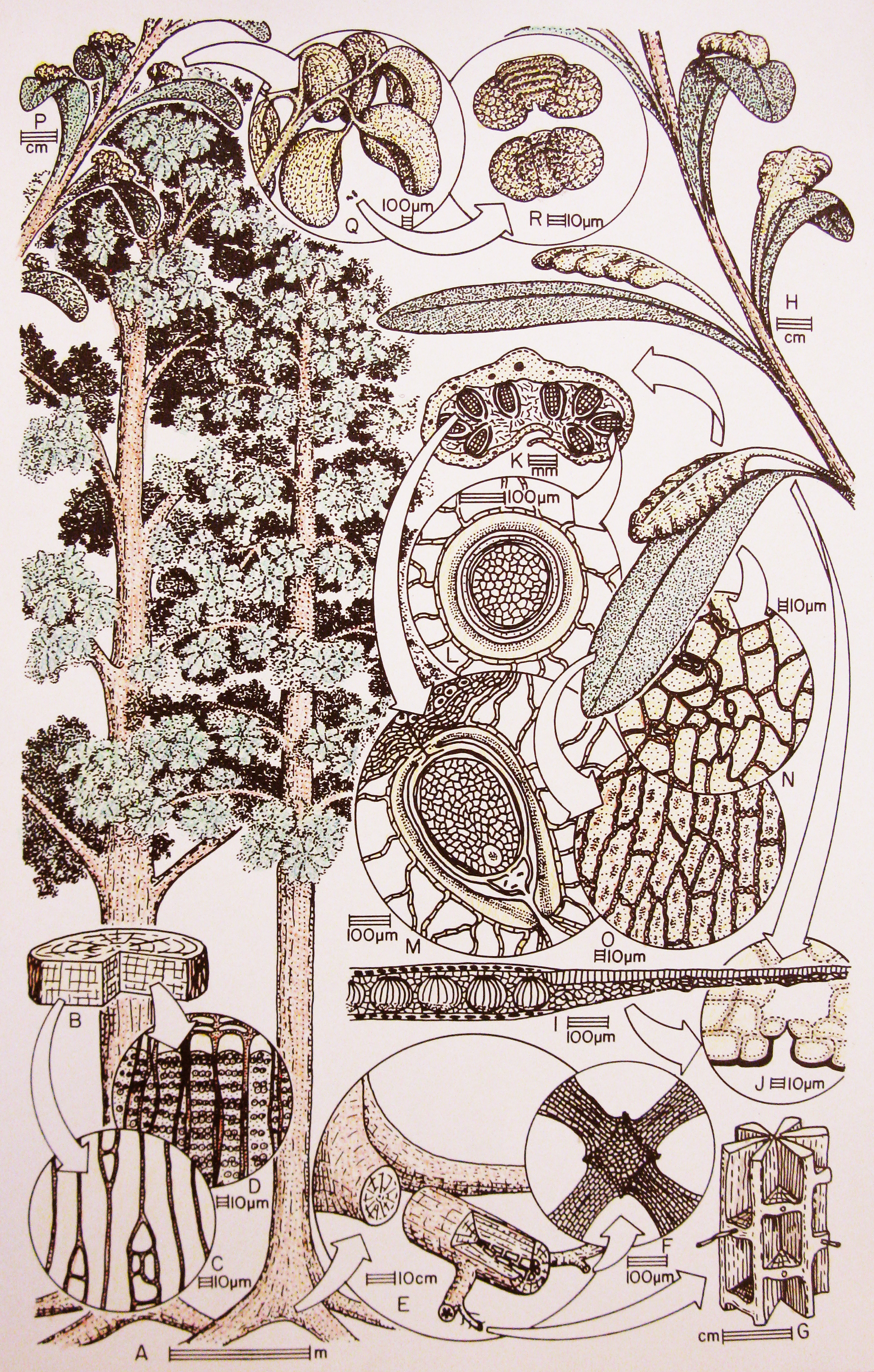 Reconstruction of the glossopterid plant Dictyopteridium sporiferum, with Glossopteris communis leaves, Eretmonia hinjridaensis pollen organ, Protohaploxypinus limpidus pollen, Araucarioxylon bengalense wood and Vertebraria australis chambered roots from the Late Permian Blackwater Coal Measures near Homevale Station, Queensland.